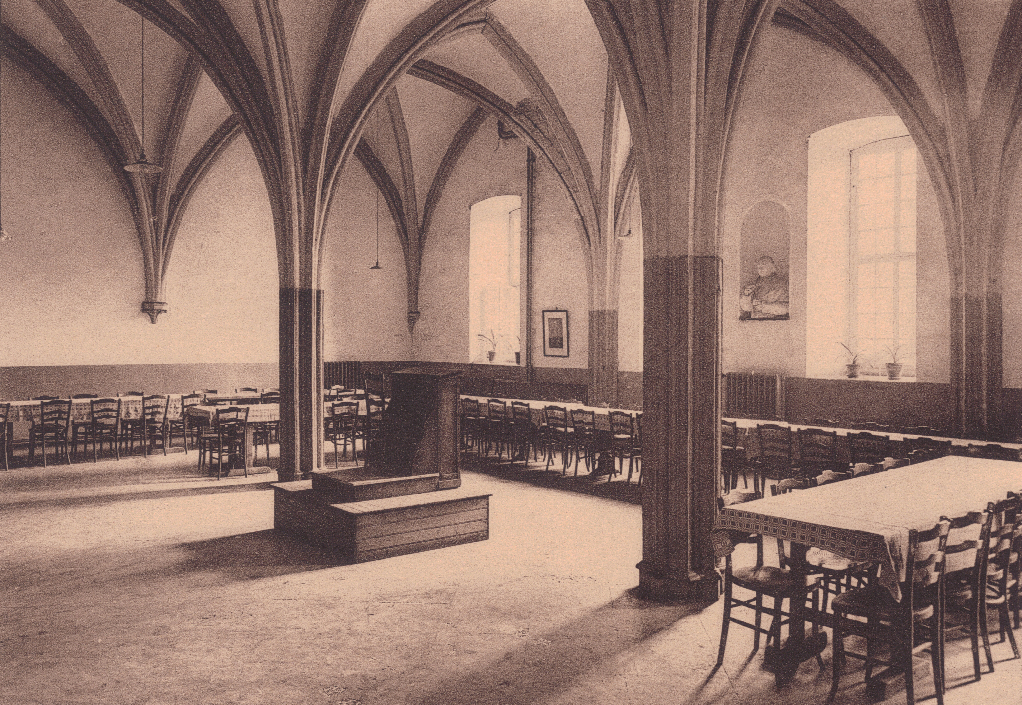 Bonne-Espérance Abbey, Vellereille-les-Brayeux (Belgium), the chapter house (13th century).